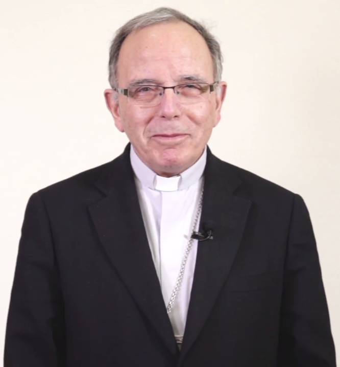 D. Manuel Clemente, Cardinal-Patriarch of Lisbon